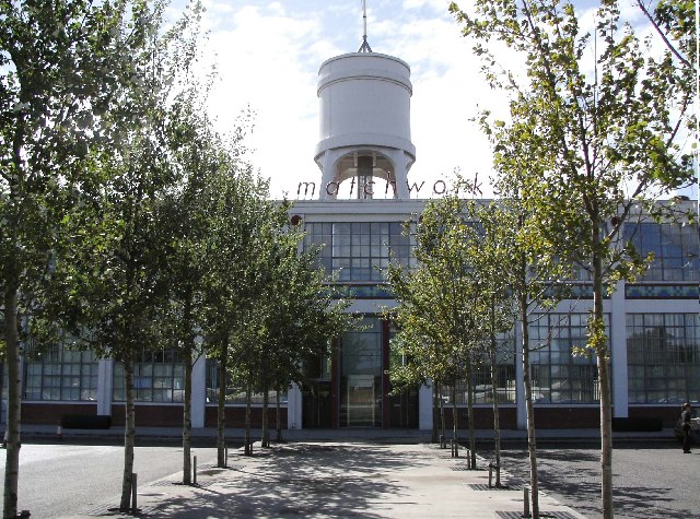 The Matchworks. Site of the former Bryant and May factory in Garston